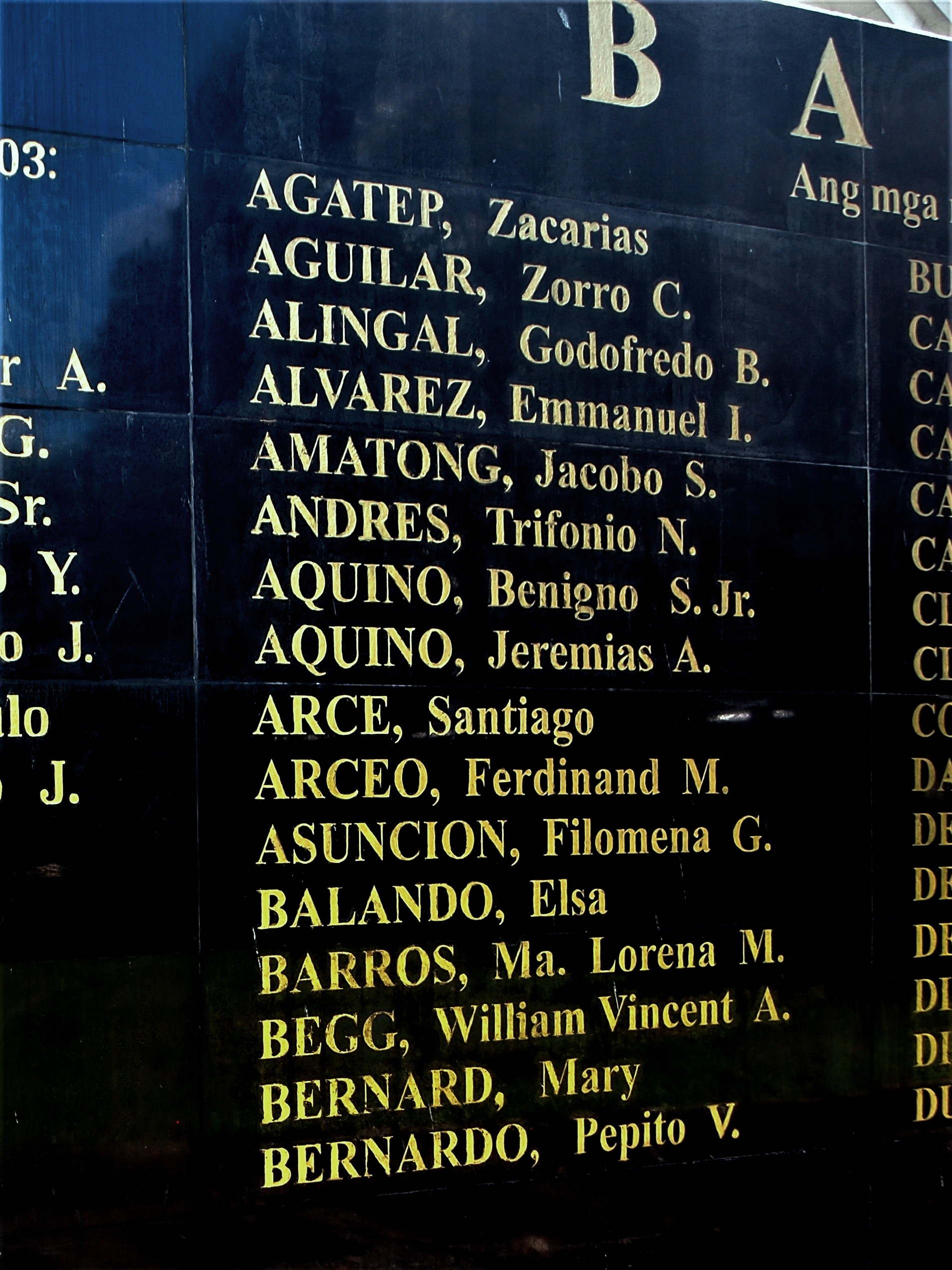 Detail of the Wall of Remembrance at the Bantayog ng mga Bayani, photographed at noon on 15 November 2018, showing names from the first batch of Bantayog Honorees, from Agatep to Bernardo.